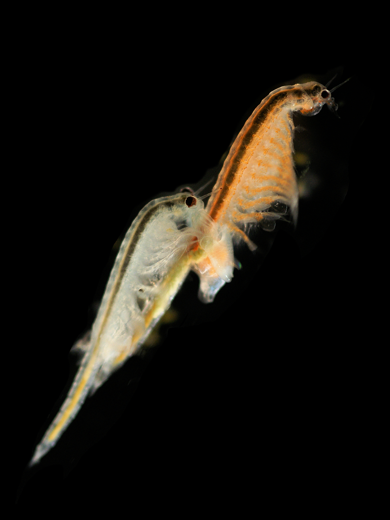 Brine shrimp. Laboratory picture